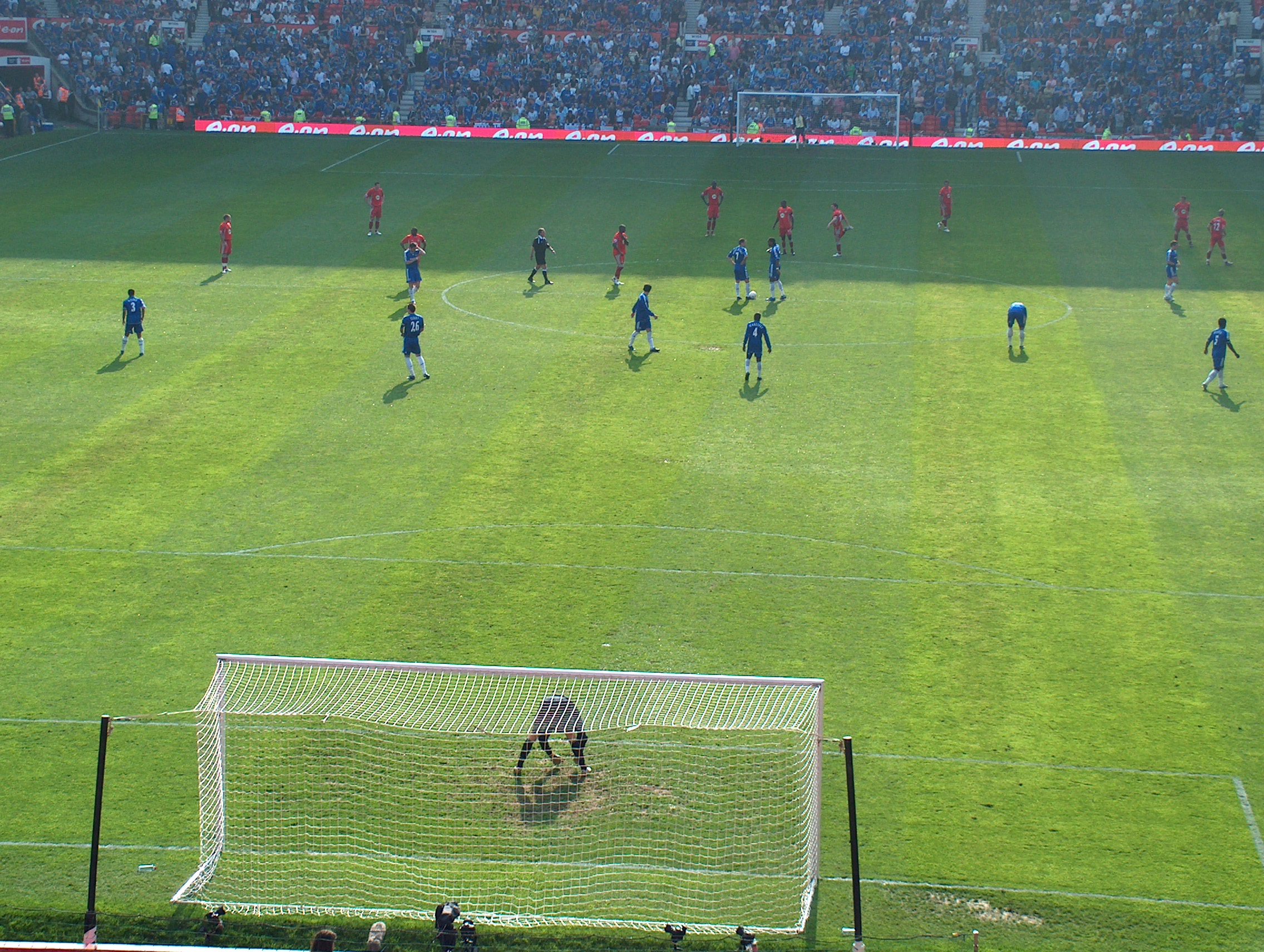 Ready for kick-off Blackburn Rovers v Chelsea in an FA Cup semi-final. Chelsea won it in extra time.